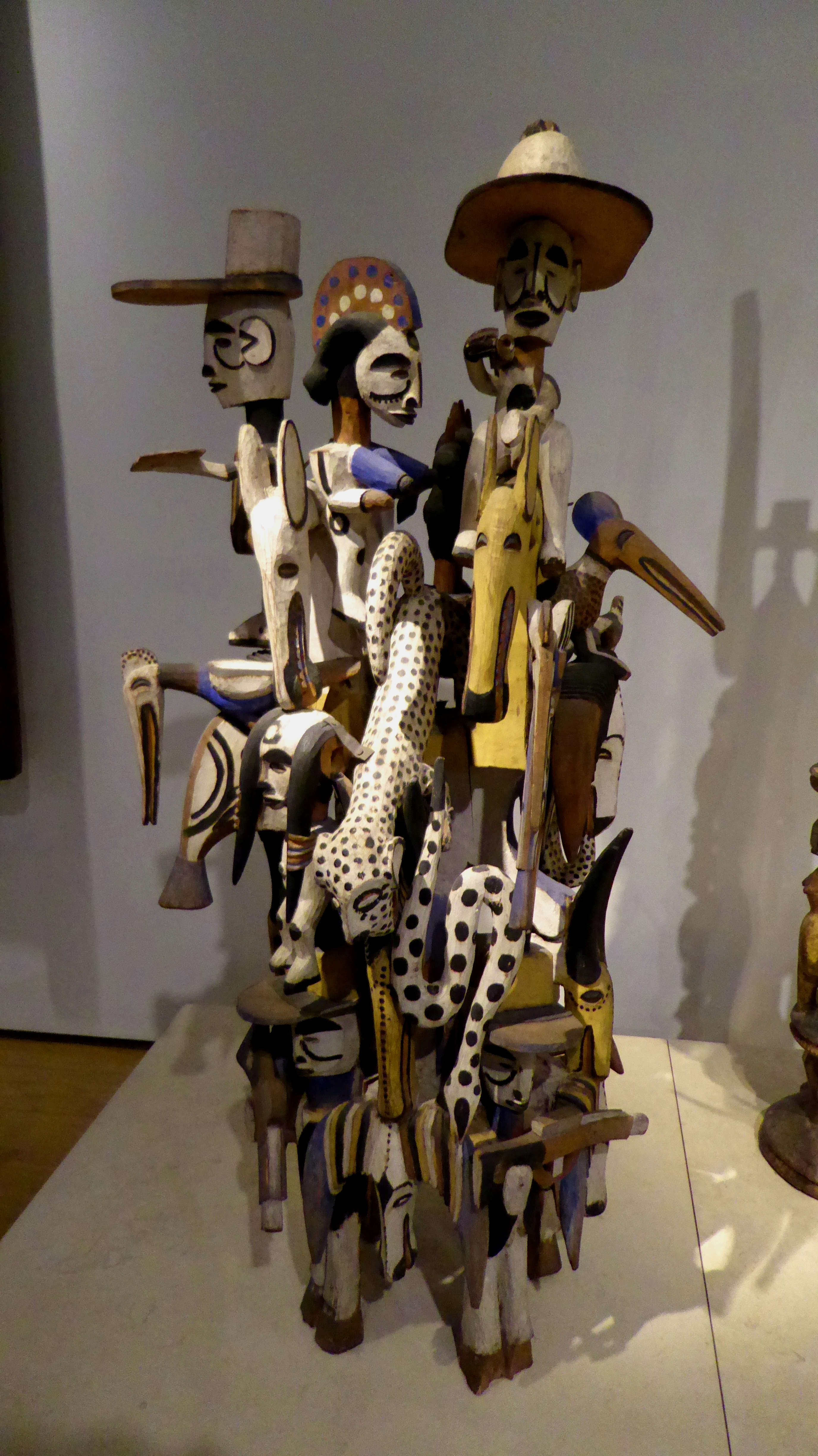 A complex sculpture originating among the Igbo people of West Africa. Now on display at the British Museum (Af1954,23.522).